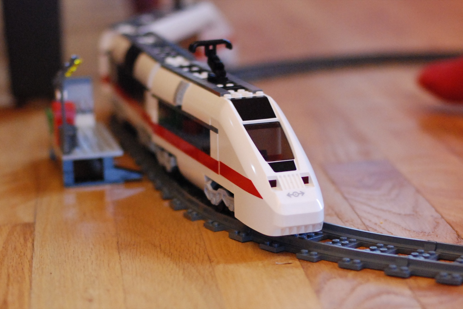 LEGO 7897 City Passenger Train - Year 2006